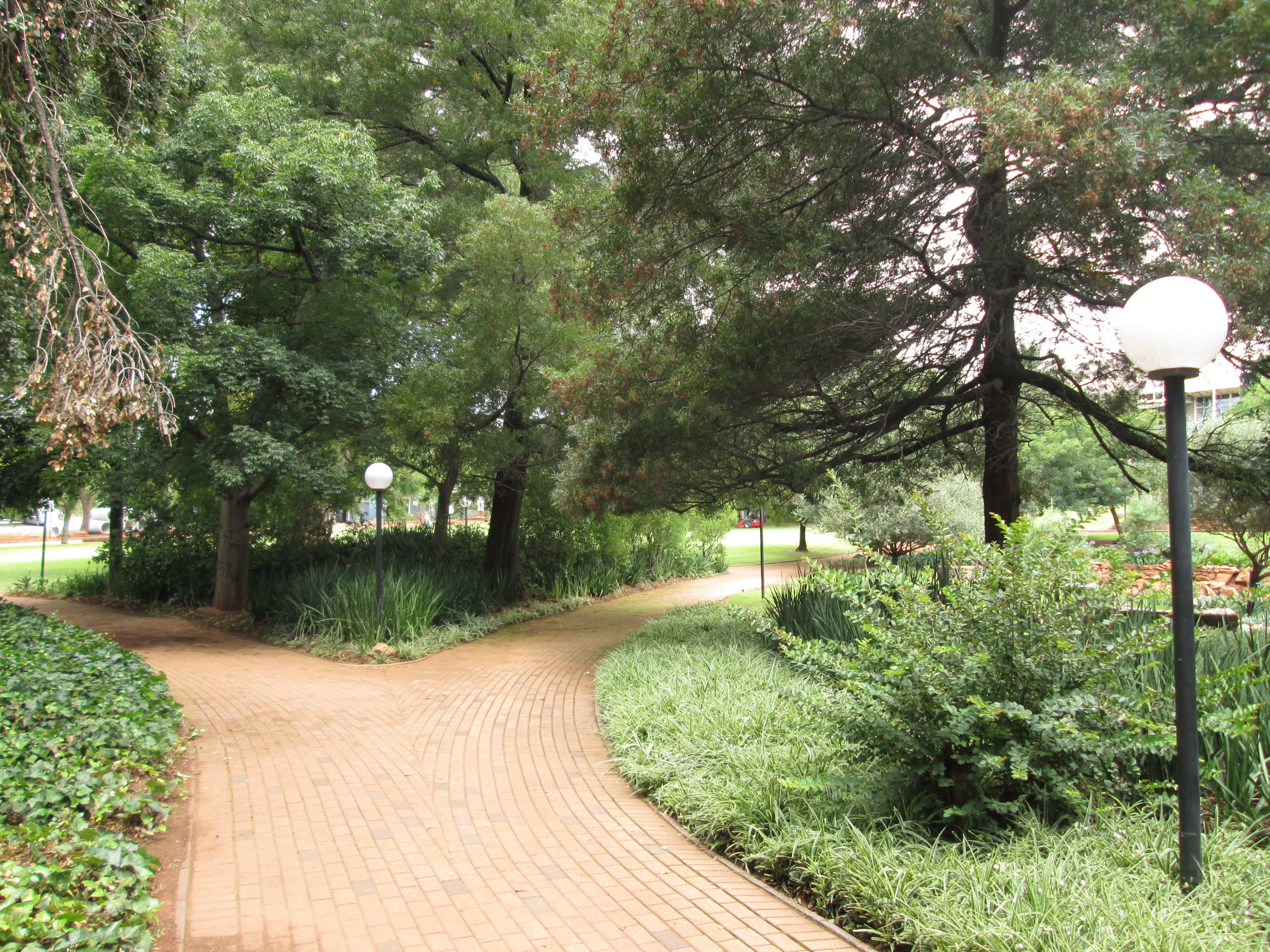 Approaching a fork in a footpath through the Gavin Reilly Green (colloquially "the Law Lawns") on the West Campus of the University of the Witwatersrand, Johannesburg, facing north.